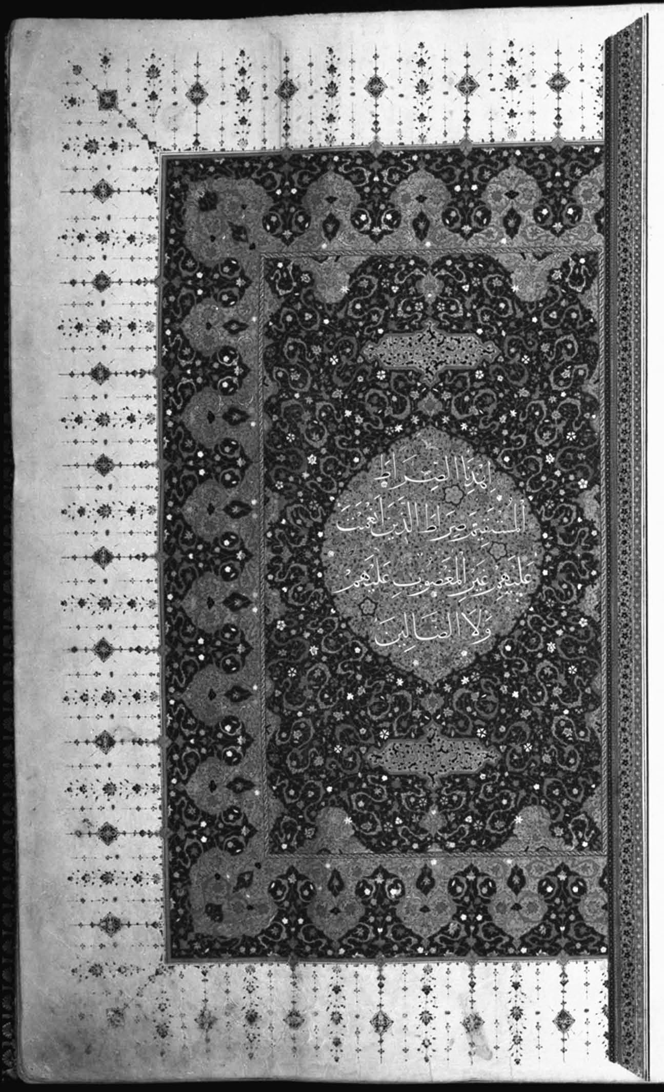 Left-hand side of the opening double page of the Qur'an. Transcribed by Ruzbihan Muhammad at Shīrāz, ca. 965/1558. Preserved at the Chester Beatty Library, Dublin